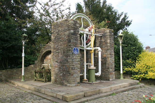 Preserved vertical engine, A666 north of Darwen Vertical steam engine and the sorry remains of a loom beside the A666 near the junction with the M65. Darwen is home to two al fresco engines and it's taken me a long time to locate this on the map despite seeing it several times.